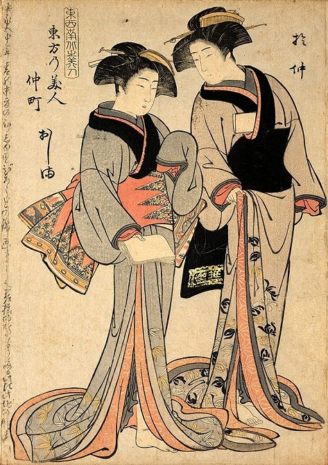 Beauties of the East (i.e. Edo): Onaka and Oshima from [the Yoshiwara's] Naka-machi) from the set Beauties of East, West, South and North